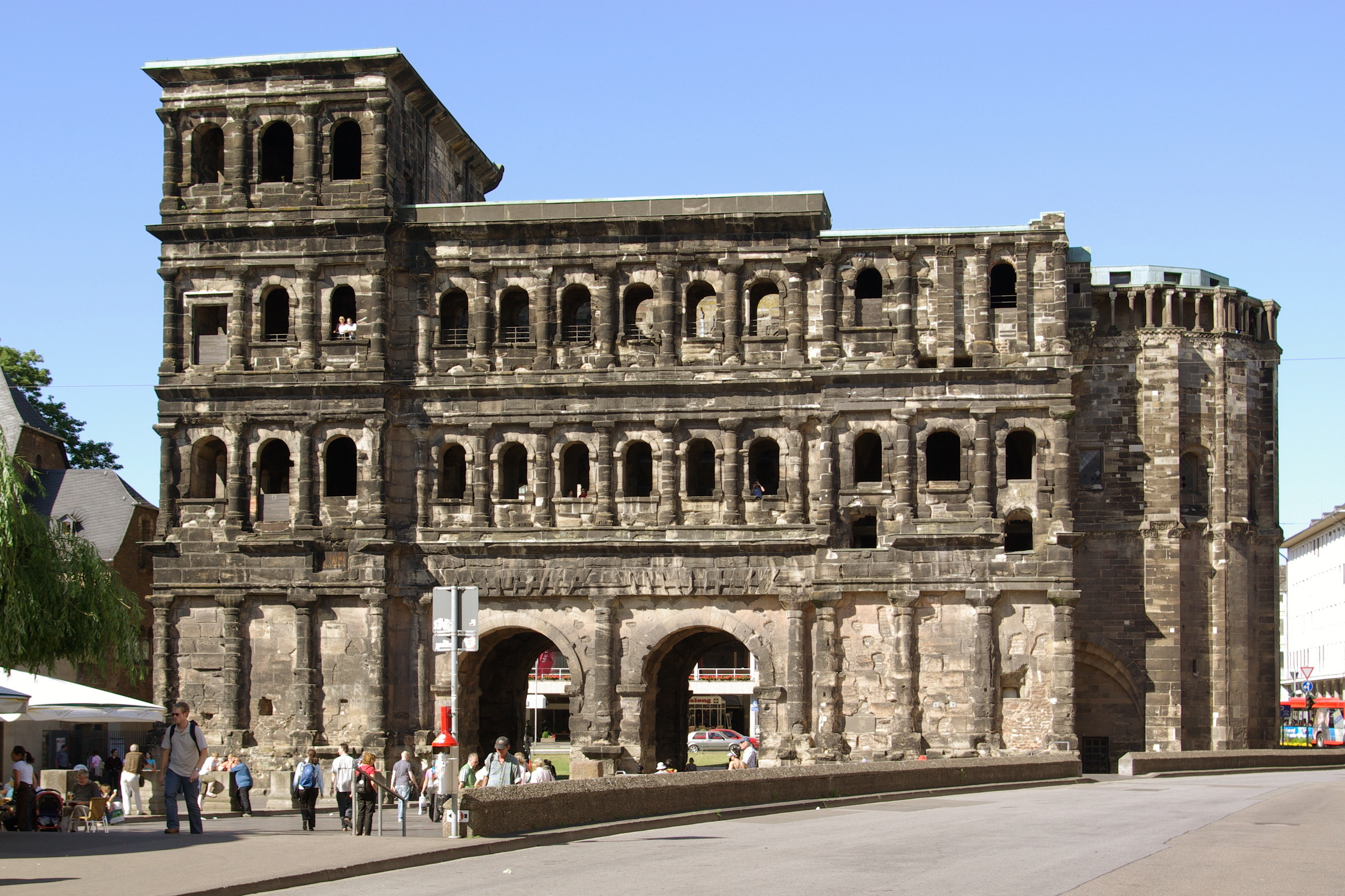 Porta Nigra (Black Gate) in Trier, Germany, best preserved Roman building north of the Alps, and World Heritage Site of UNESCO, south side